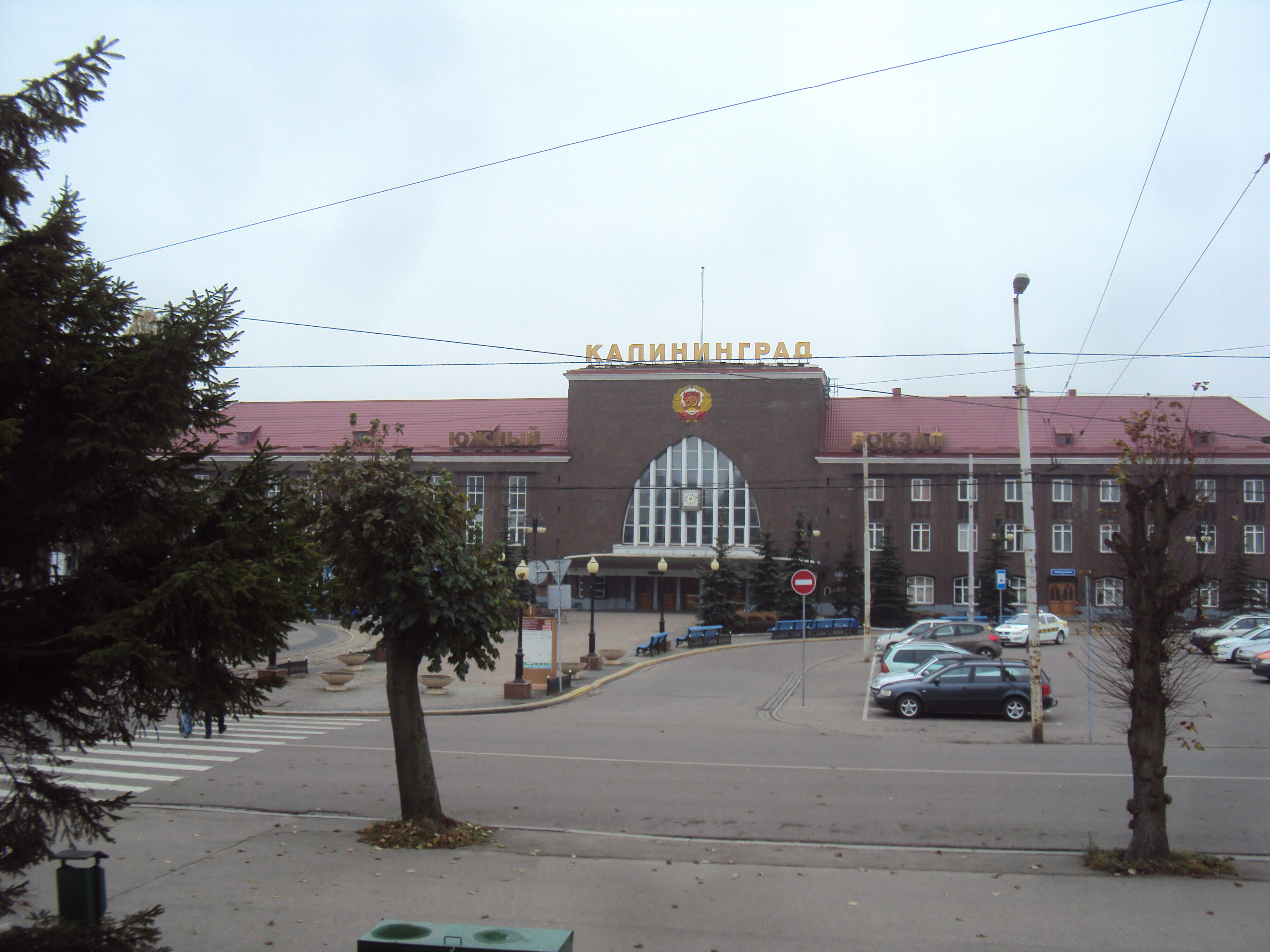 The building's main railway station